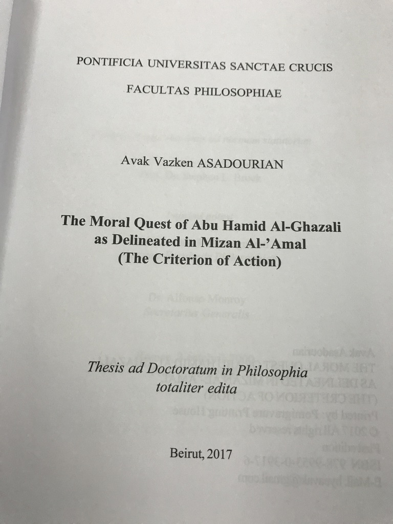 Pomigravure Printing House